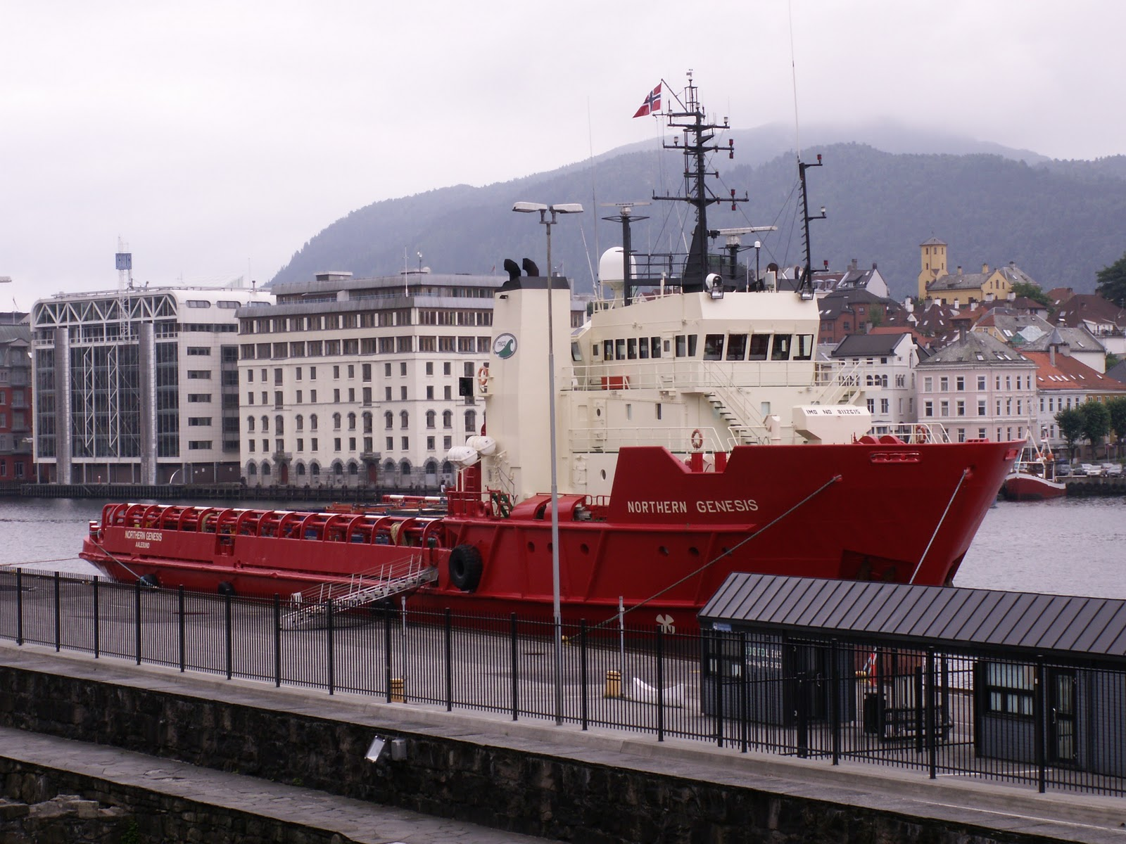 Northern Genesis supply vessel, IMO 8112615